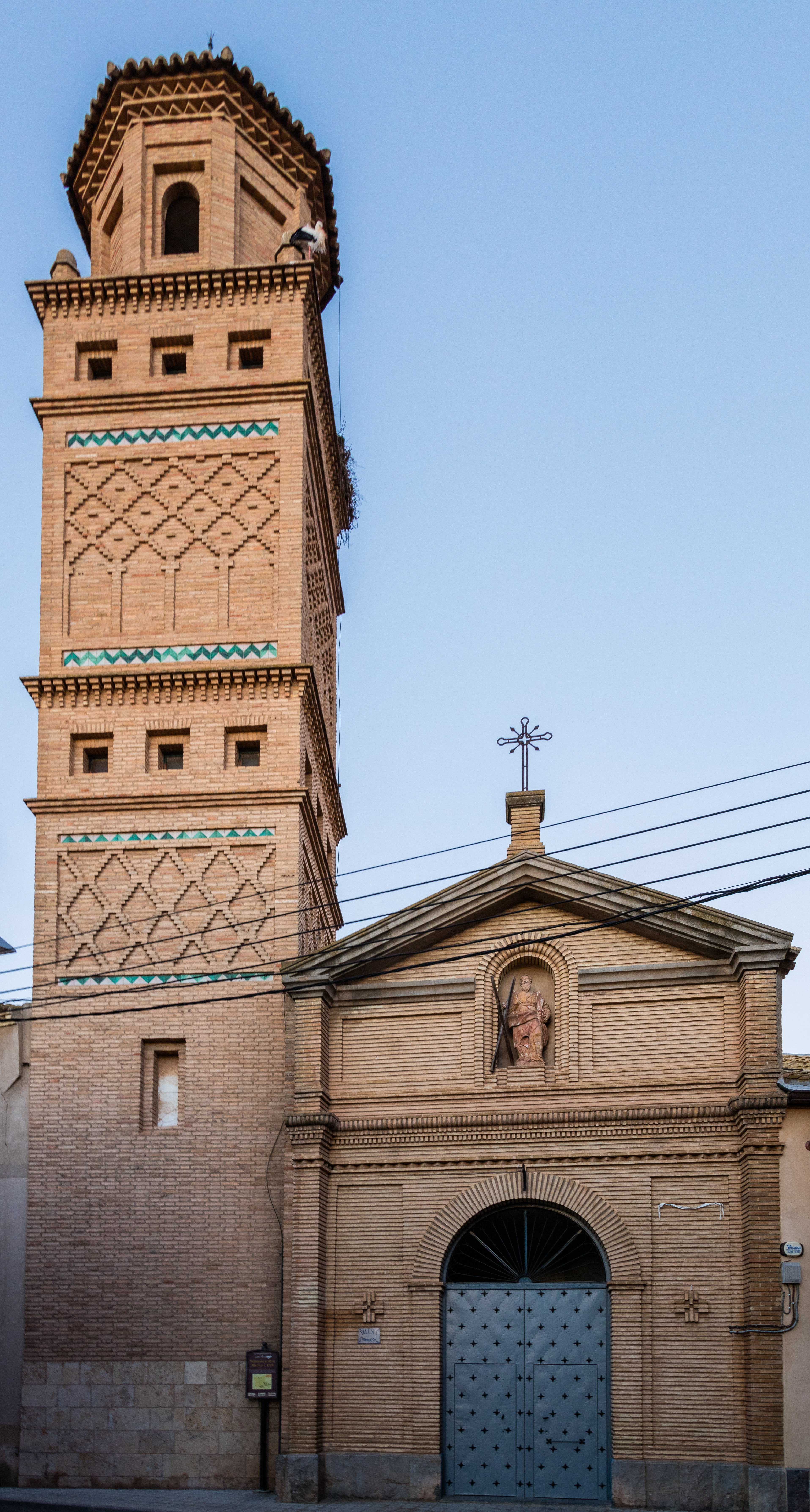 Church of St Andres, Pinseque, Saragossa, Spain